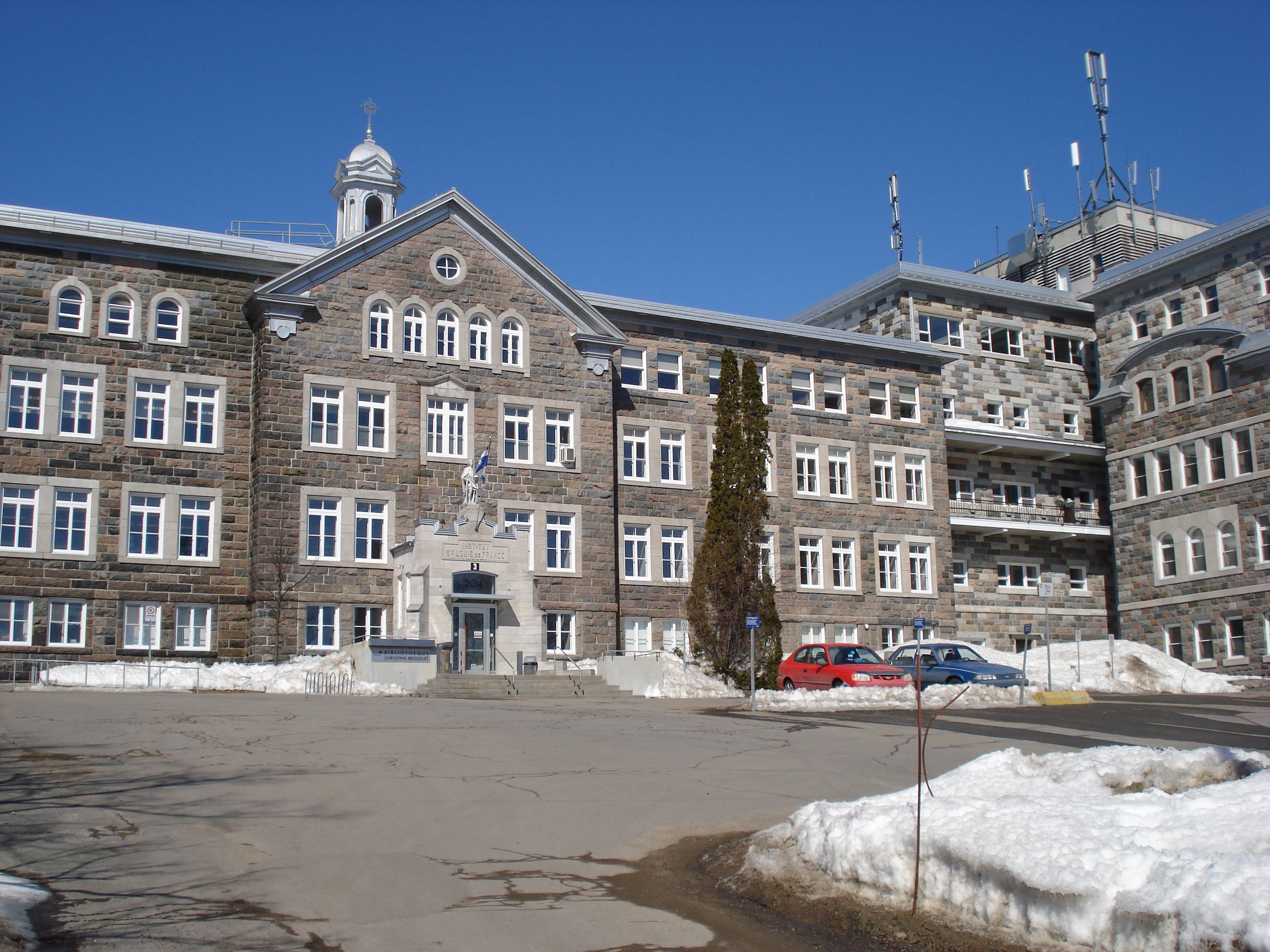 St-Louis Institute building in Loretteville, Quebec